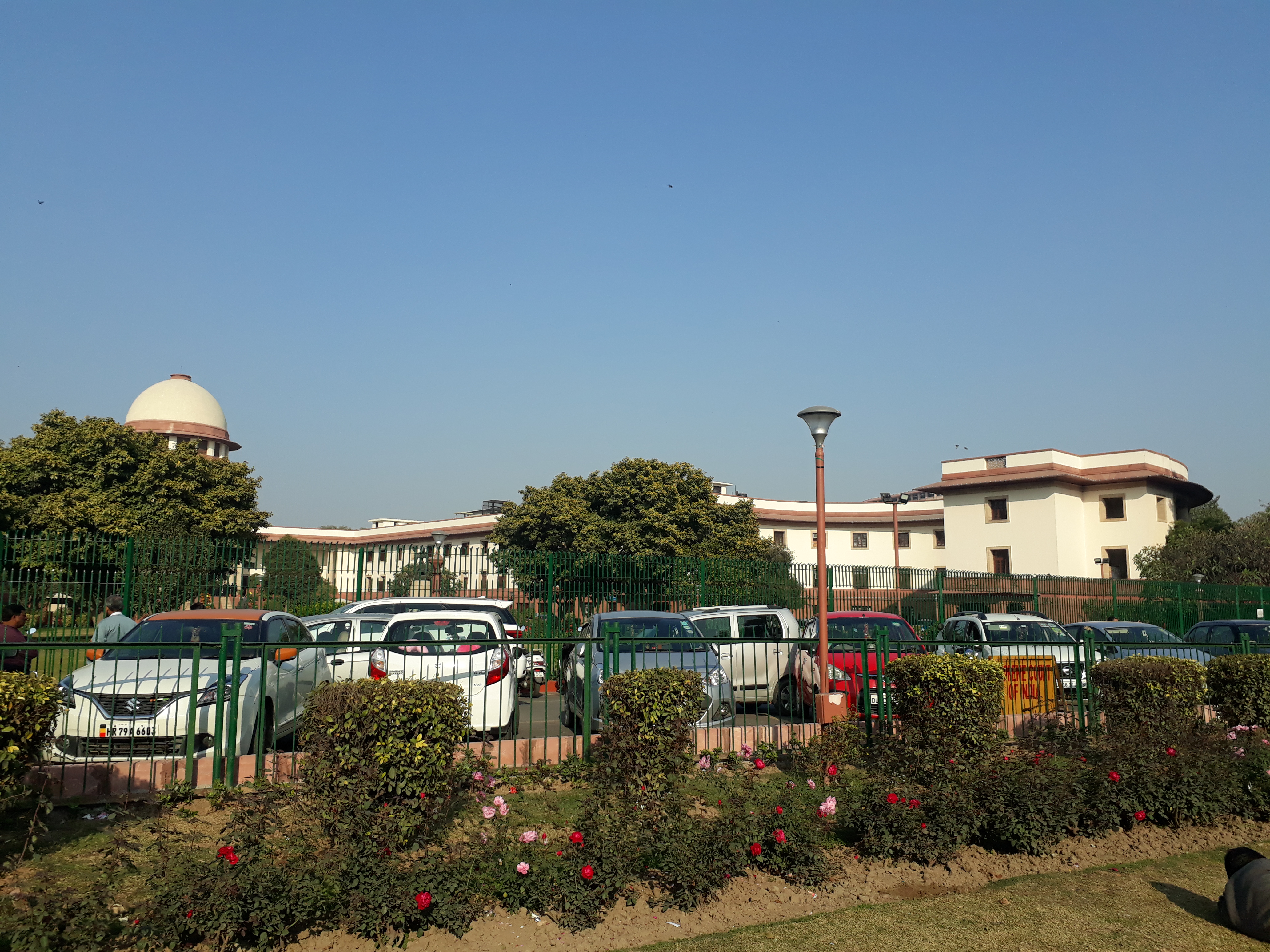 Supreme Court of India, Talak Marg in New Delhi